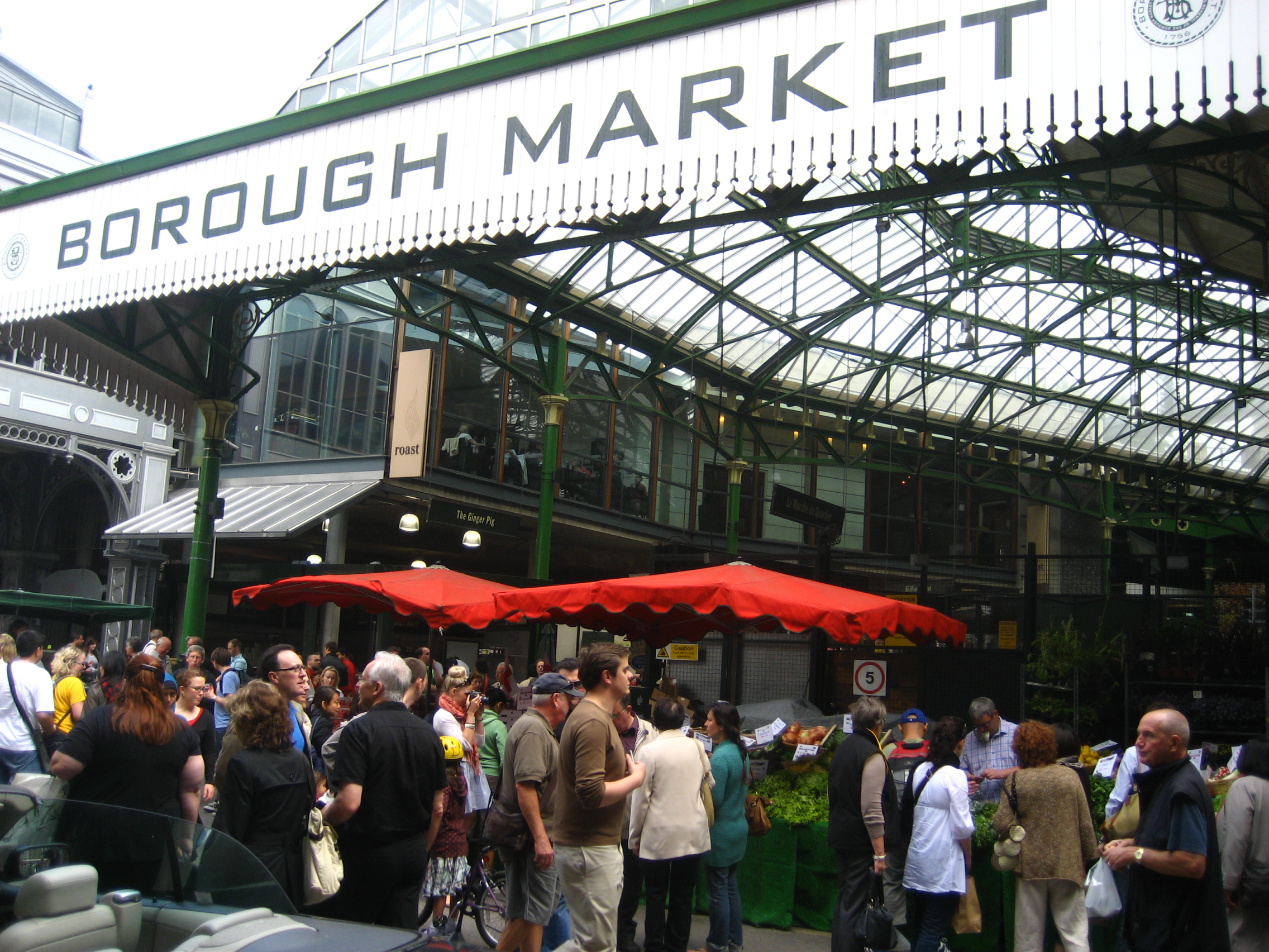 Borough Market